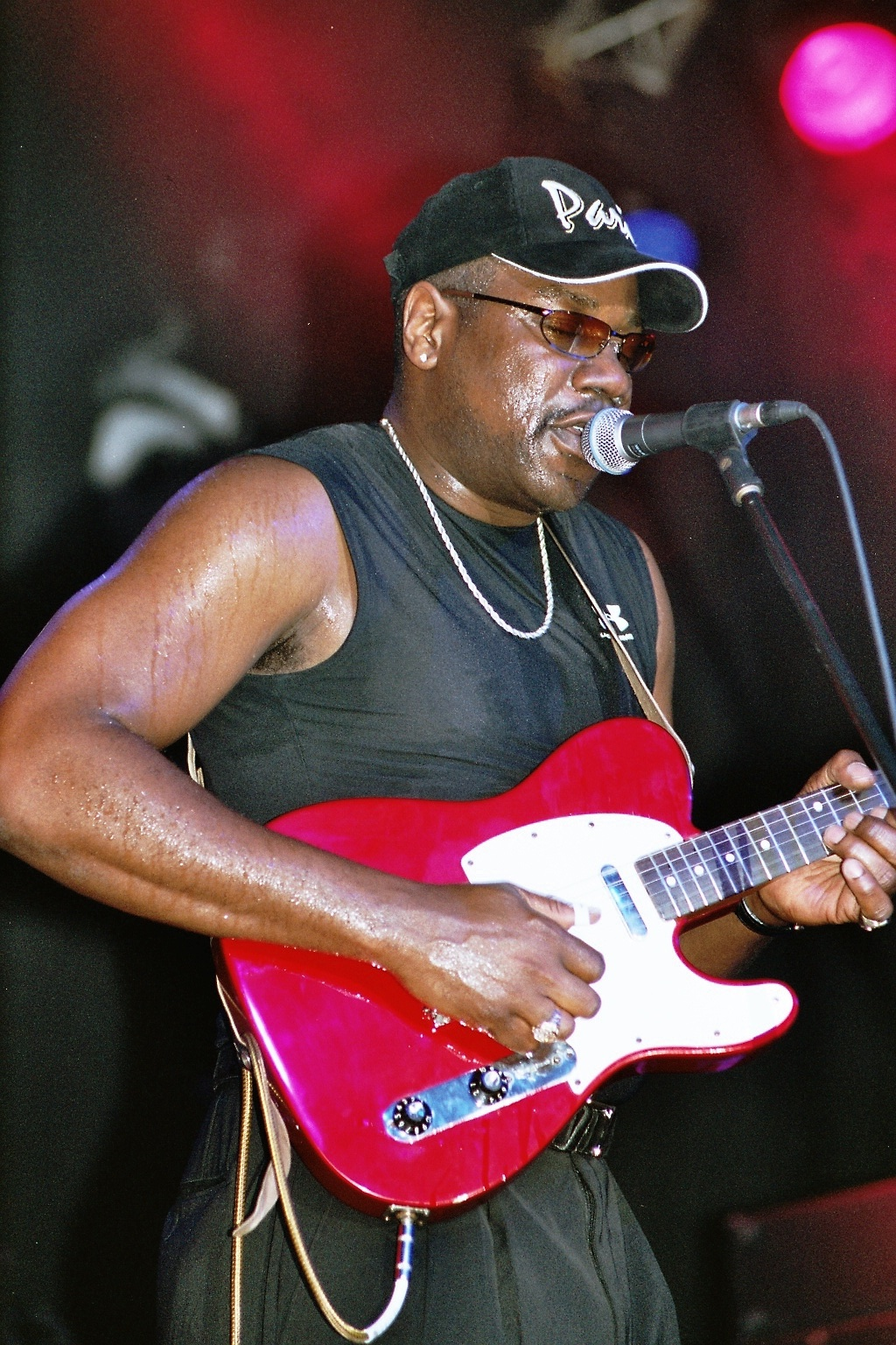 Morganfield playing at Burnley Blues Festival, Easter weekend, 2006; the son of Muddy Waters, he looks like his famous father